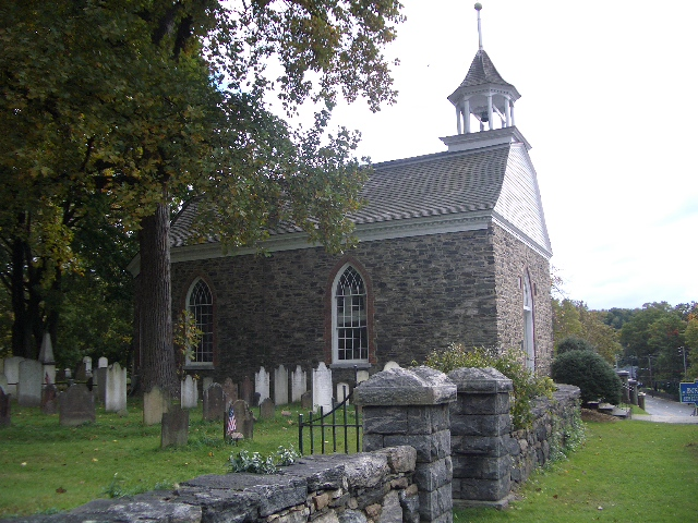 Old Dutch Church of Sleepy Hollow taken by James Russiello